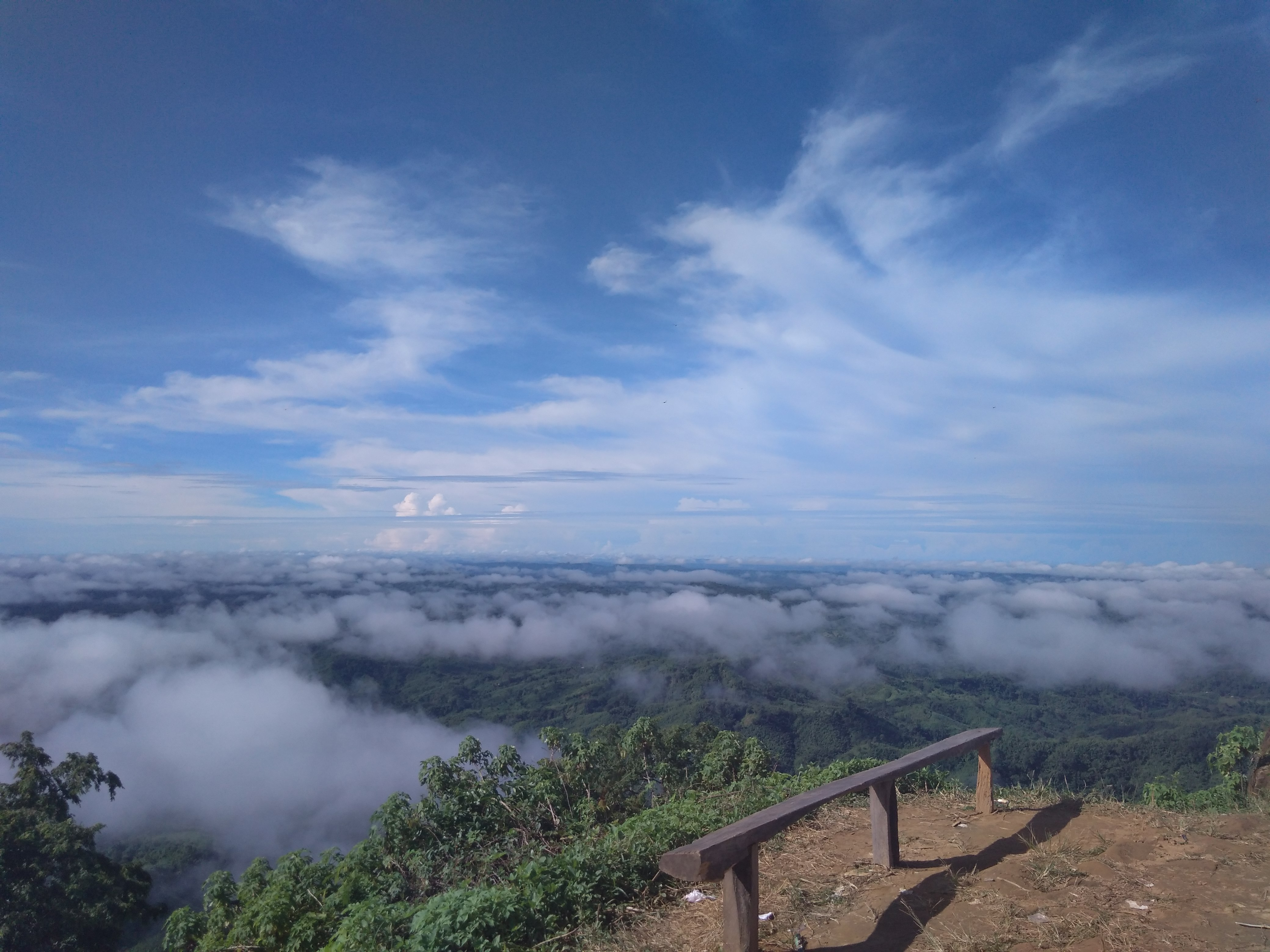 KonglakView